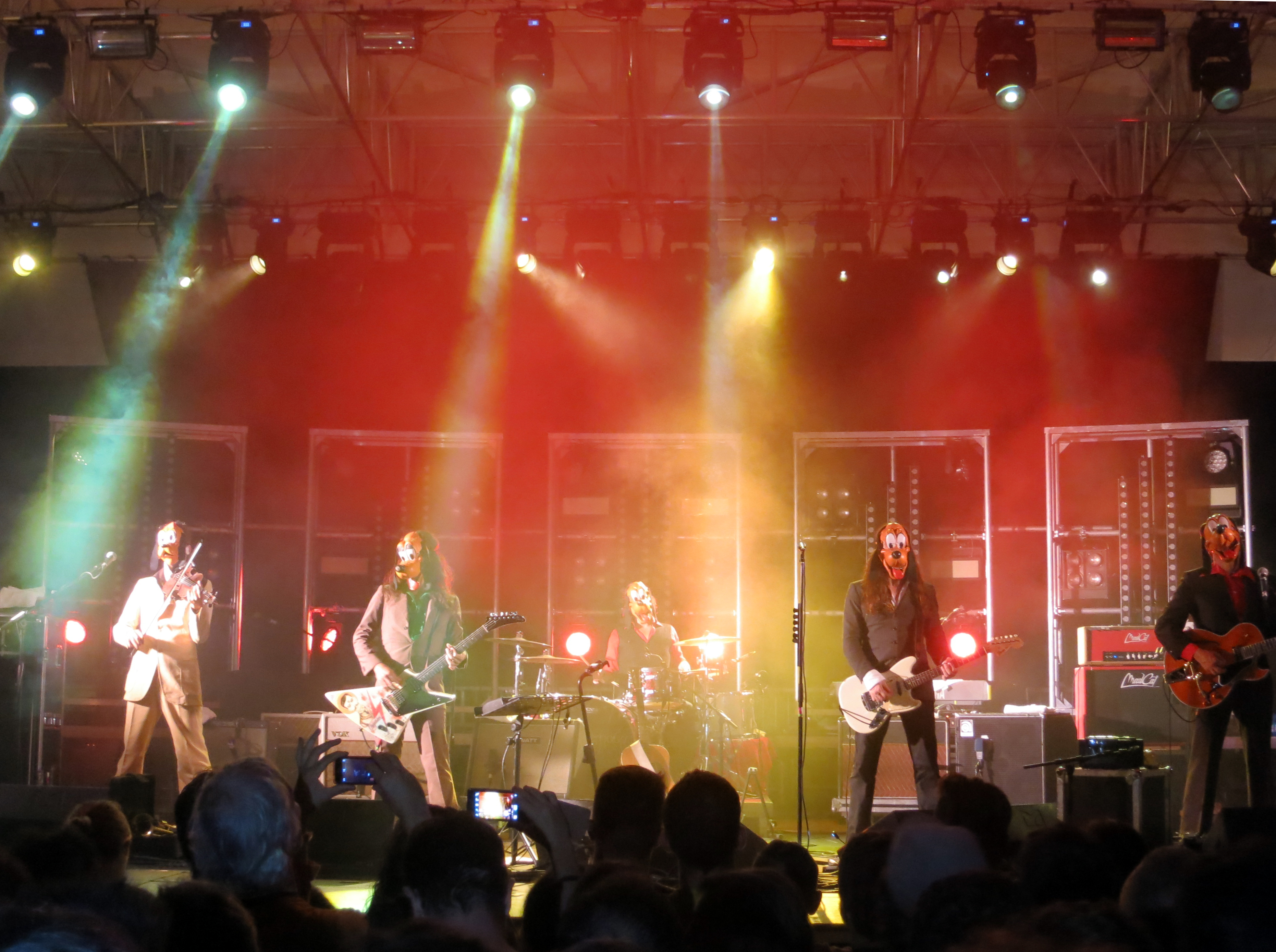 Afterhours - Hai paura del buio Tour 2014, at Metarock Festival - La Cittadella Park, Pisa, Italy. Song "Ter­ror­swing", in which the band plays wearing Pluto masks.